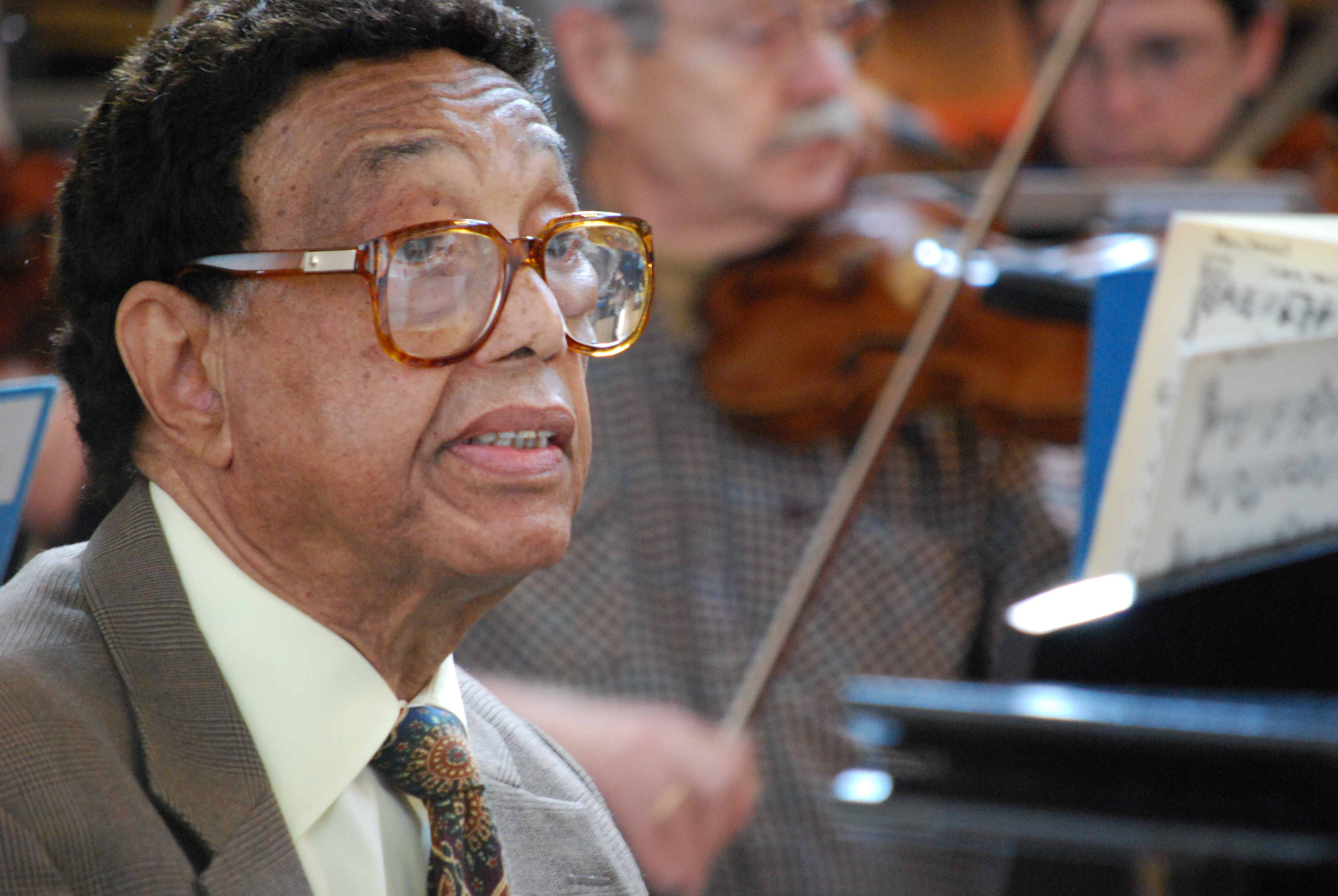 Billy Taylor performed with VocalEssence on February 13th 2009.